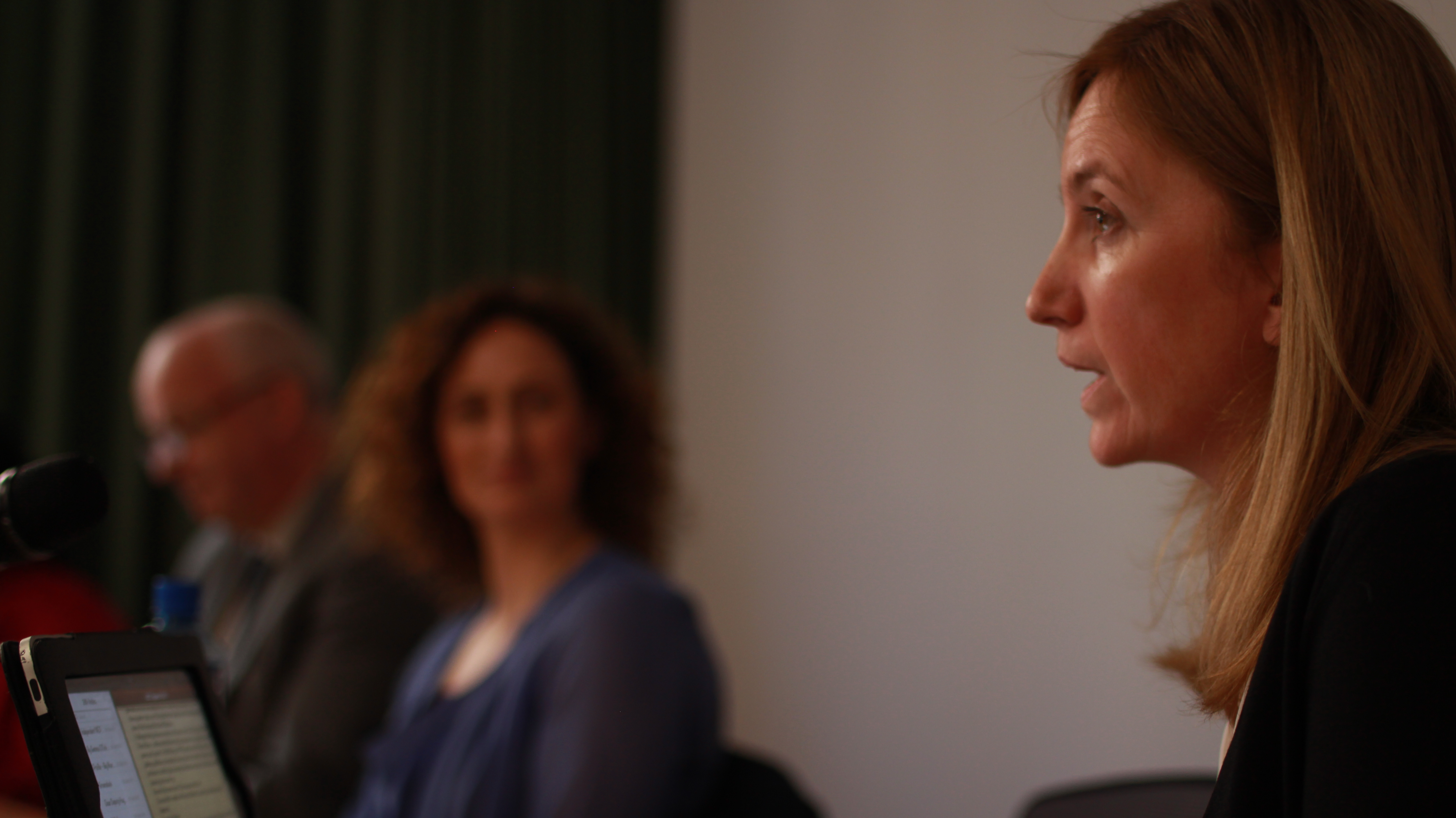 Investigative journalist Gemma O'Doherty speaking at Make it Happen Women's Day event organised by Sinn Féin MEP Lynn Boylan (13 March 2015)